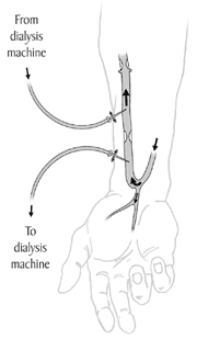 Arteriovenous fistula to use in hemodialysis.